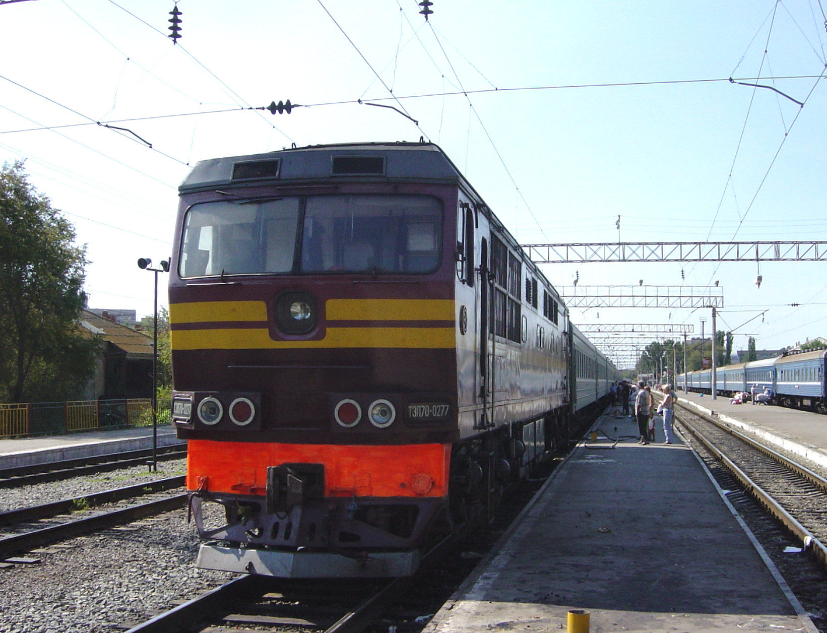 Russian diesel locomotive TEP70-0277 at Astrakhan-1 Railroad station, just attached to train 395C, coming from Makhachkala (Dagestan) and traveling to Rostov-on-Don